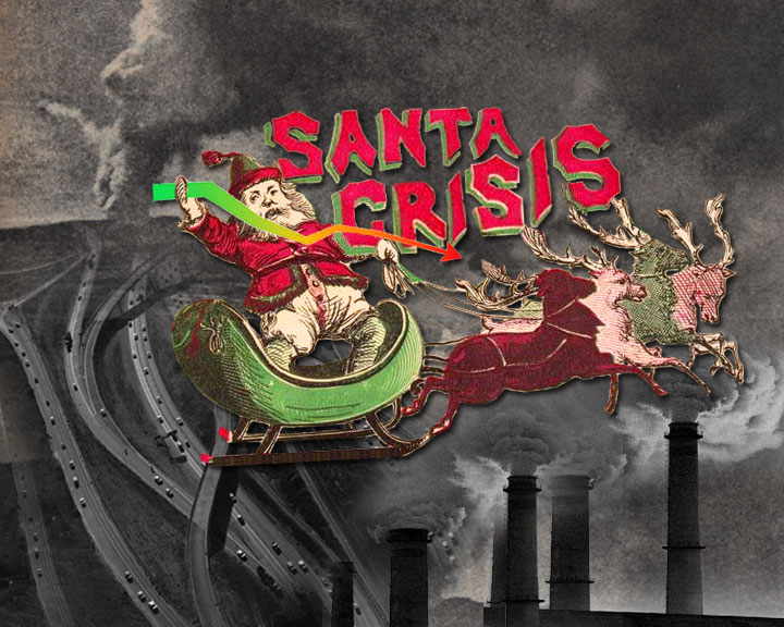 Santa Crisis is an allegory of the financial crisis that swept the world in 2007. Santa Crisis was conceived in May 2009 by conceptual artist Little Shiva and by anthropologist-economist Paul Jorion.